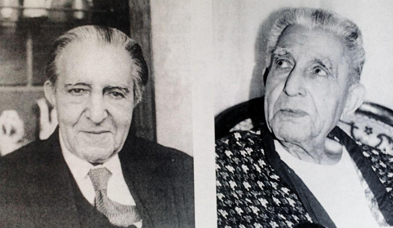 اواخر عمر امیر تیمور